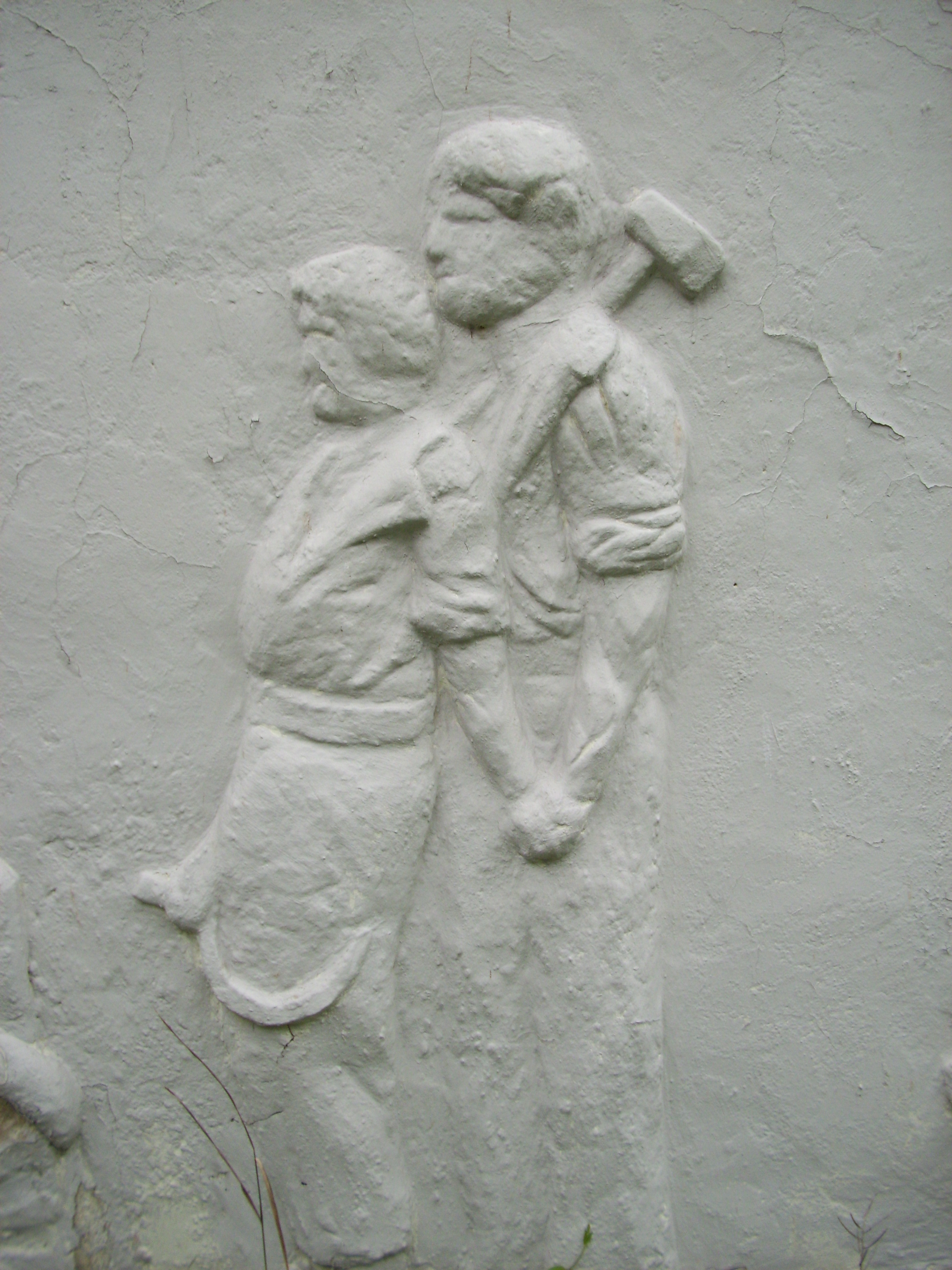 Stucco relief from the Sam Goldman house in the Ferrer Colony and Ferrer Modern School, 143 School Street, Piscataway, New Jersey